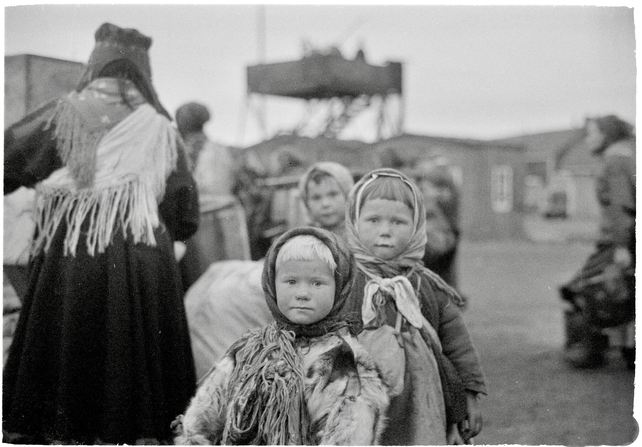 Sami people from Inari, 1944